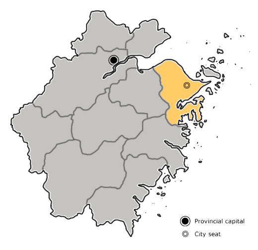 The sub-provincial city of Ningbo is highlighted on this map of Zhejiang province, People's Republic of China.